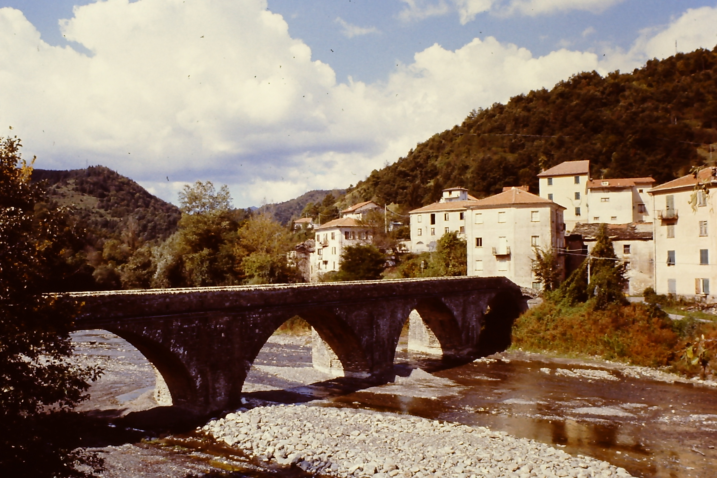 Doria Bridge over the Trebbia River through Montebruno (GE), italy